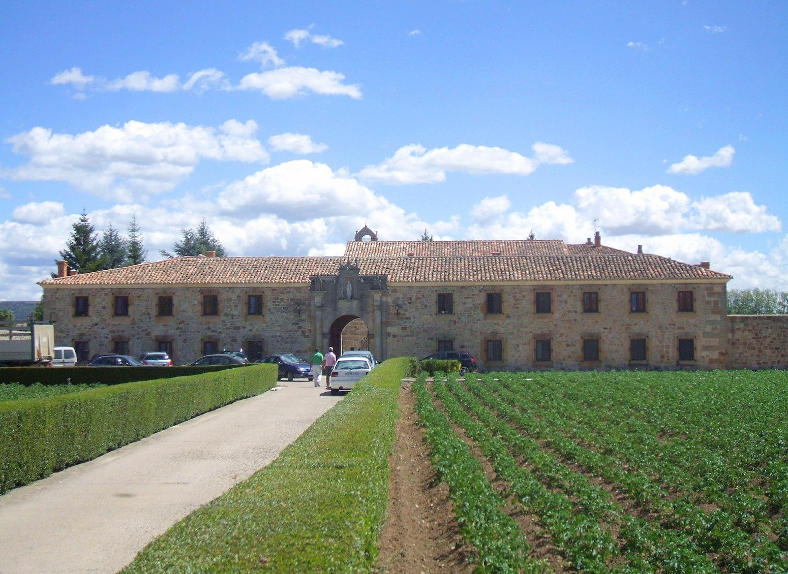 Monasterio de Santa Clara (Aguilar de Campoo)